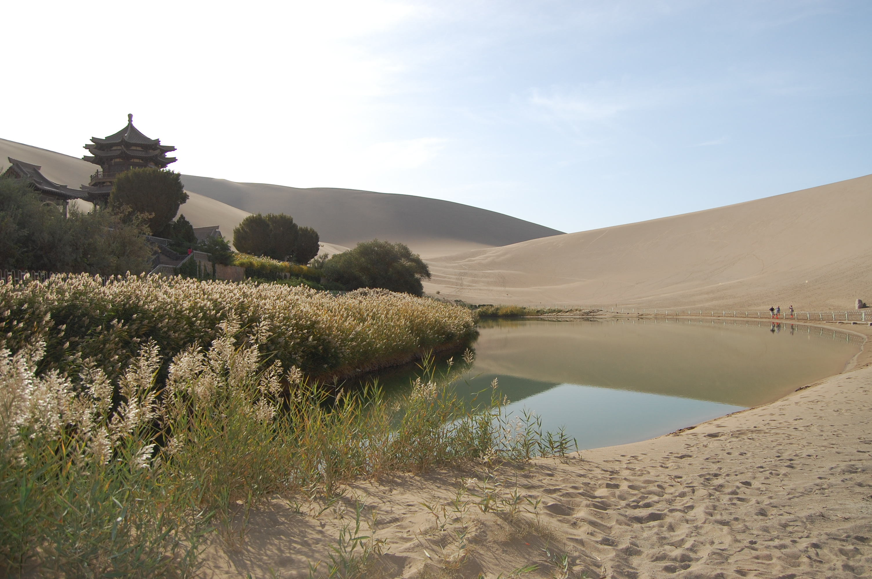 Crescent Lake in Gobi Desert near Dunhuang, Gansu Province, China